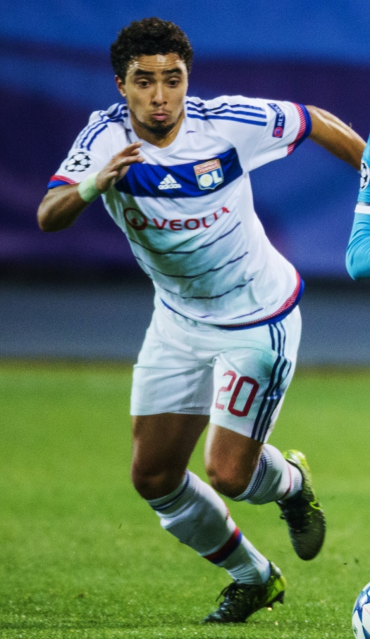 Rafael da Silva